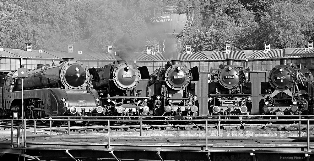 All five Deutsche Bundesbahn Neubaulokomotiven at roundhouse in Bochum-Dahlhausen Railway Museum. These steam locomotives were newly-designed and built in Germany after the Second World War.